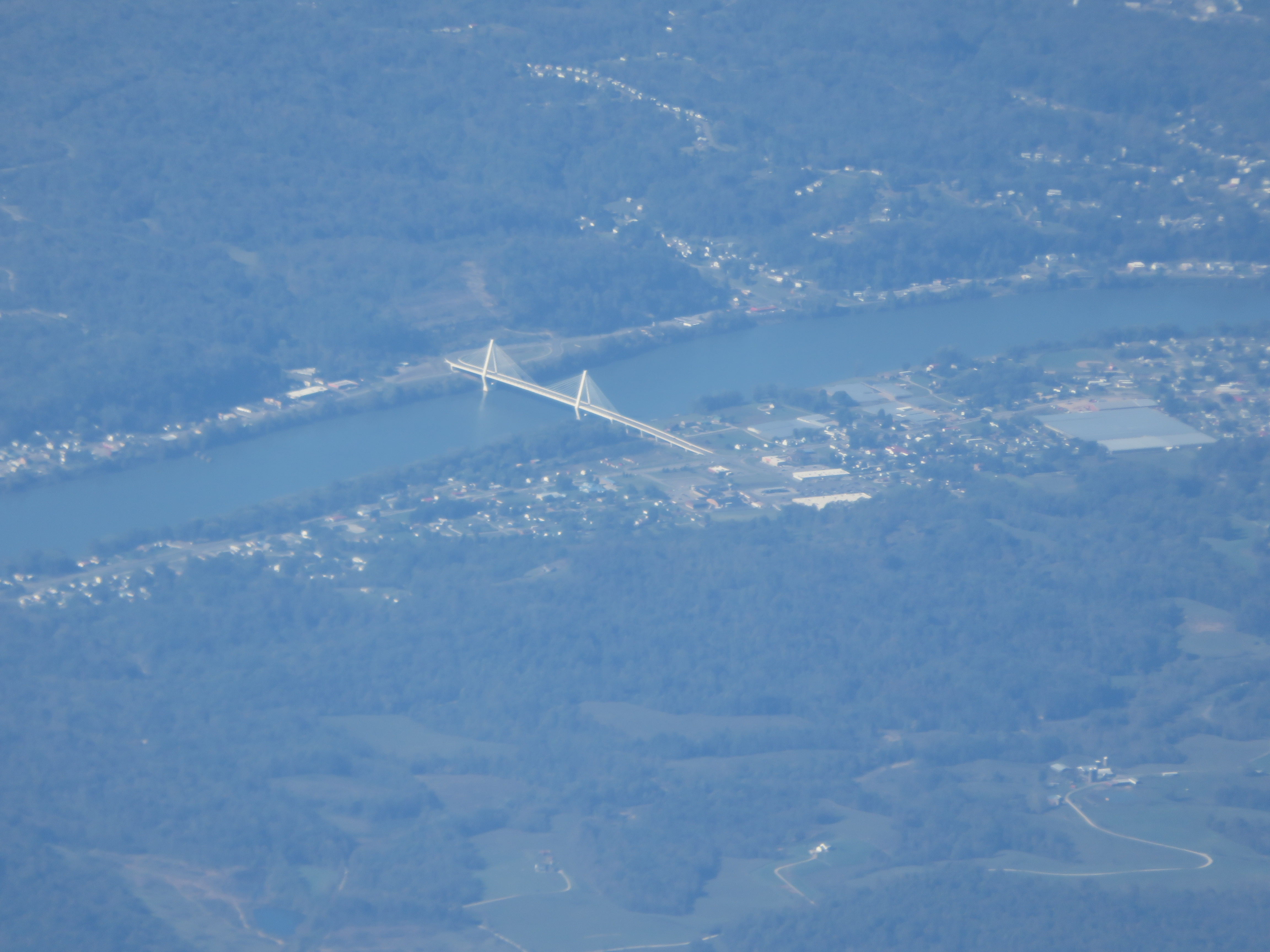 Aerial view of the Pomeroy–Mason Bridge over the Ohio River in 2017